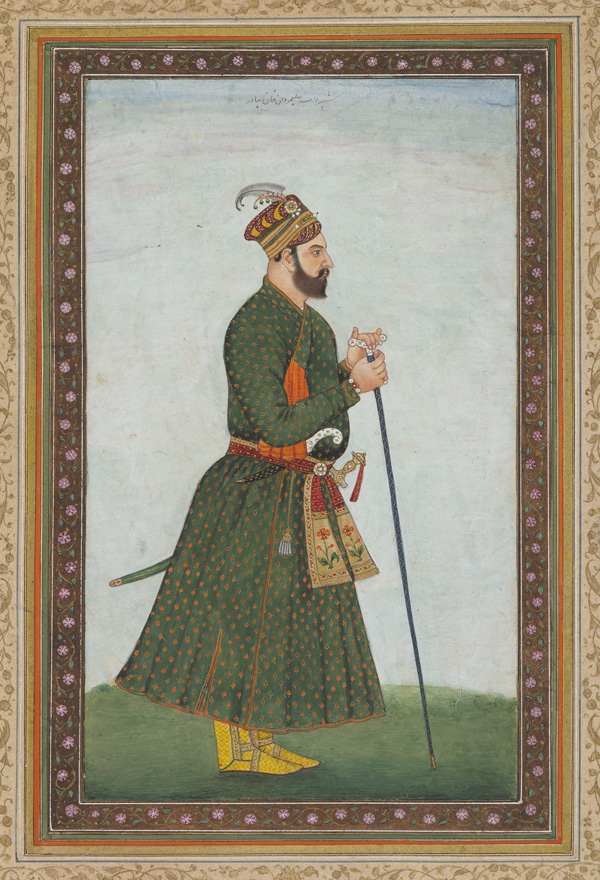 Nawab Ali-Mardan Khan ca. 1900 Opaque watercolor, ink, and gold on paper H: 31.5 W: 23.5 cm India Purchase--Smithsonian Unrestricted Trust Funds, Smithsonian Collections Acquisition Program, and Dr. Arthur M. Sackler S1986.440